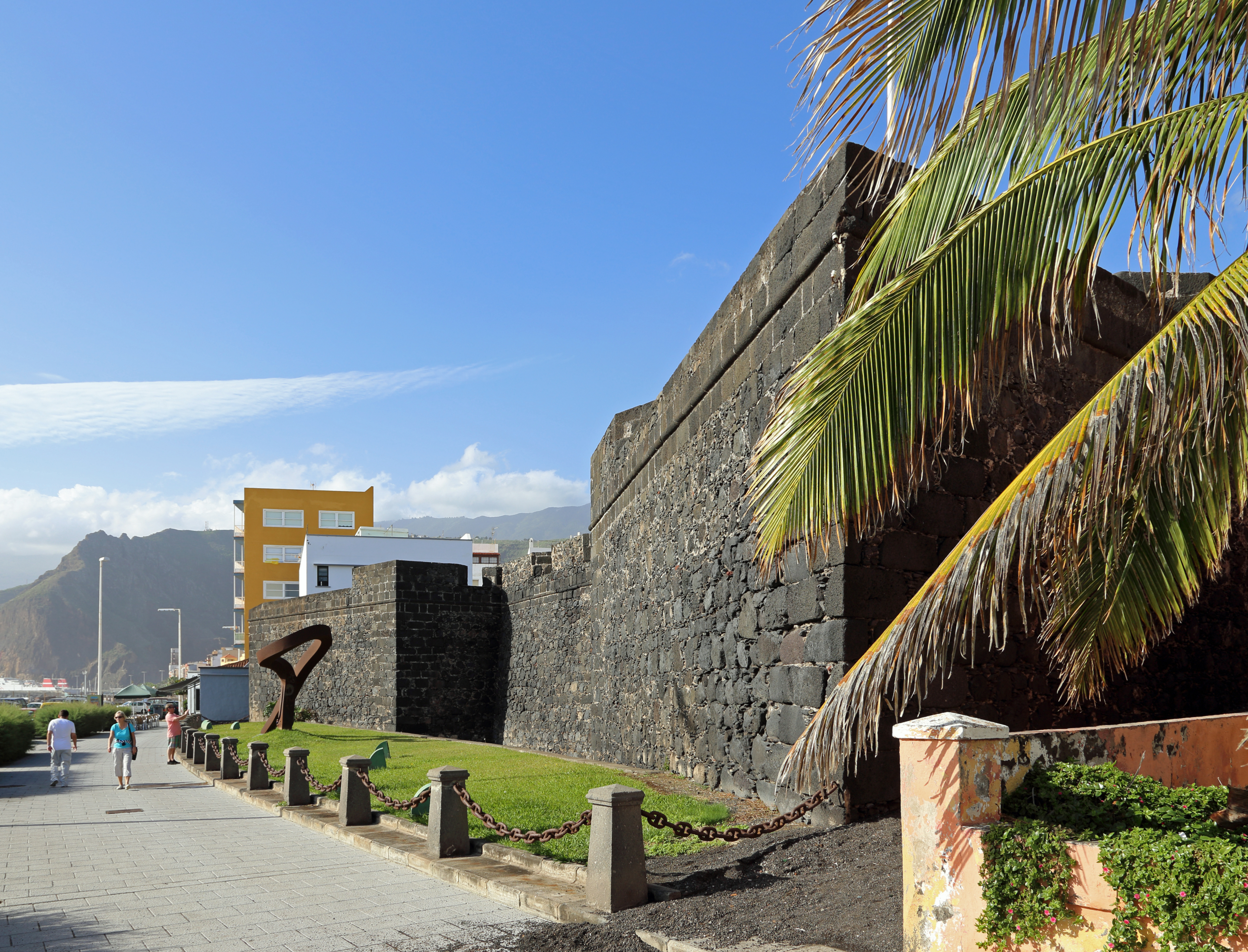 Santa Cruz de La Palma (Canary Islands): the Santa Catalina fort